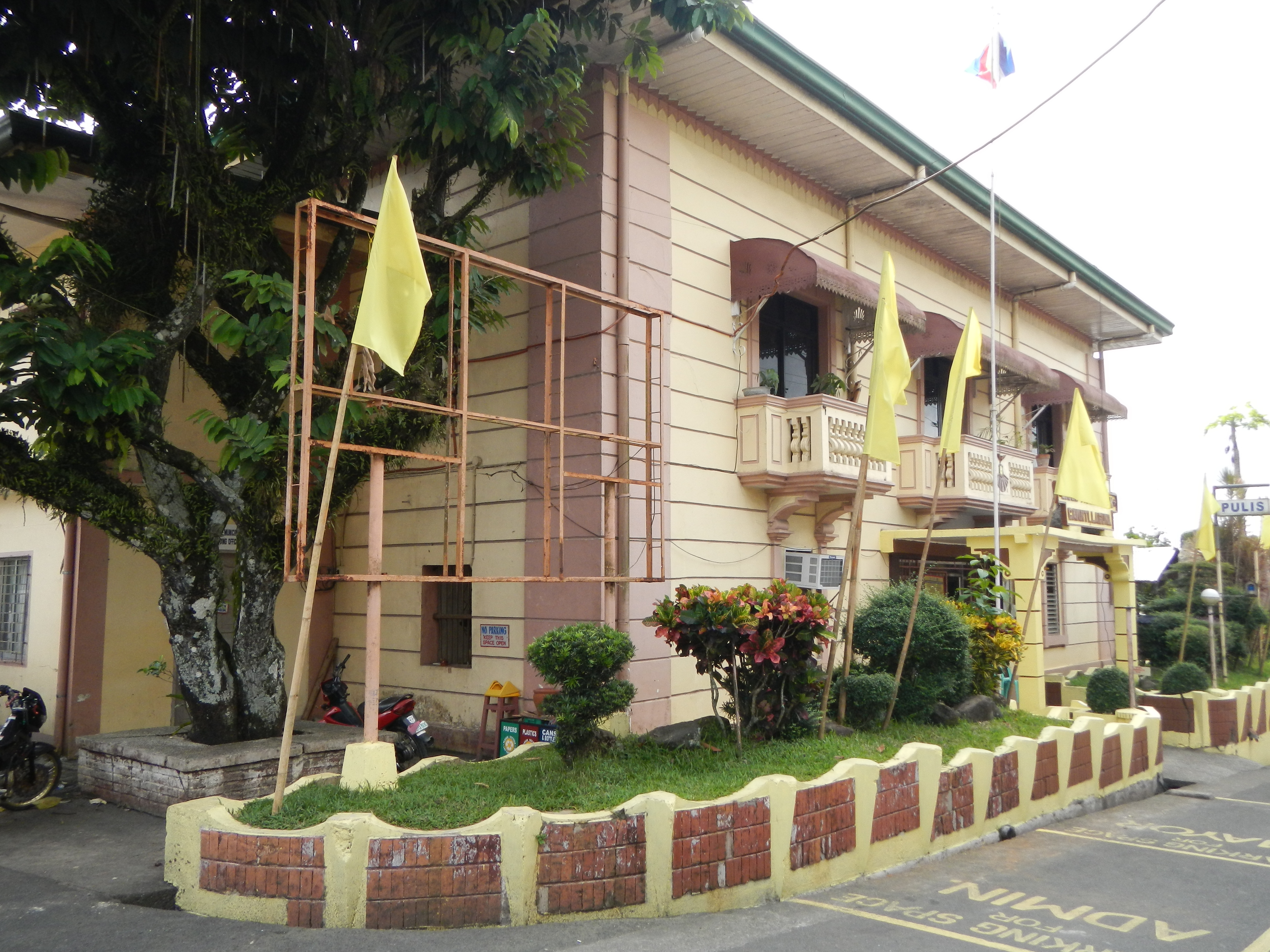 (General description, 3-dimension angle by angle photography of this town, church & landmarks) -- of the - Cavinti Municipal Hall [1] Coordinates: 14°14'43"N 121°30'23"EWebsite [2], police station, covered court, and surrounding Municipal offices.Cavinti Things to Do Caliraya Lake and Spillway Bumbungan Eco Park, Japanese gardenm Lumot lake, Yamashita shrine,Website-- Cavinti, Laguna,[3]